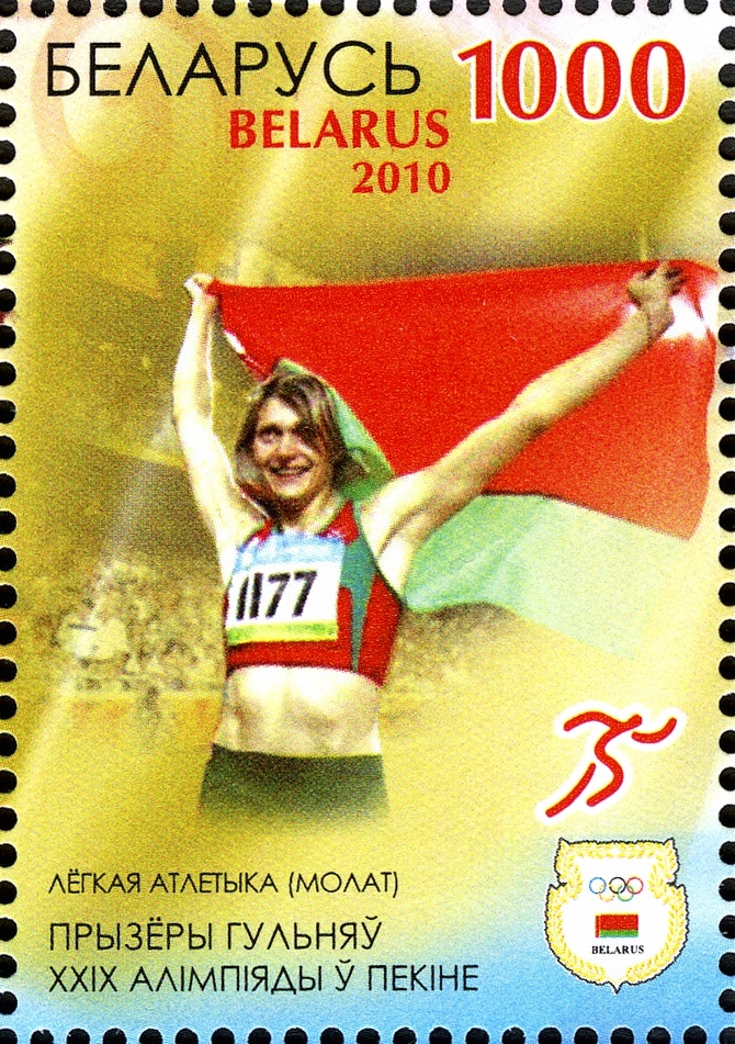 Medal Winners at XXIX Olympic Summer Games in Beijing - Athletics (Hammer throw)